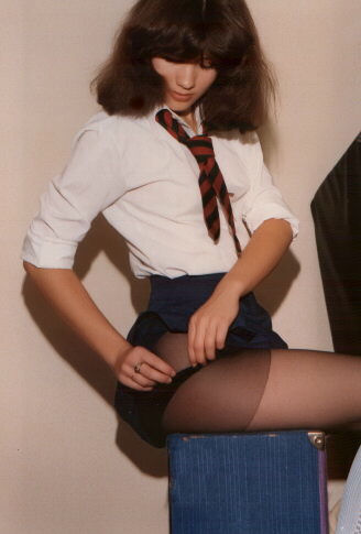 Caroline Design Dancer Gill in a test shoot for a disco brochure. Tall, slim and creative with a great sense of humour - that's Gill.